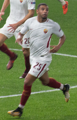 Chelsea VS. Roma 18 October 2017